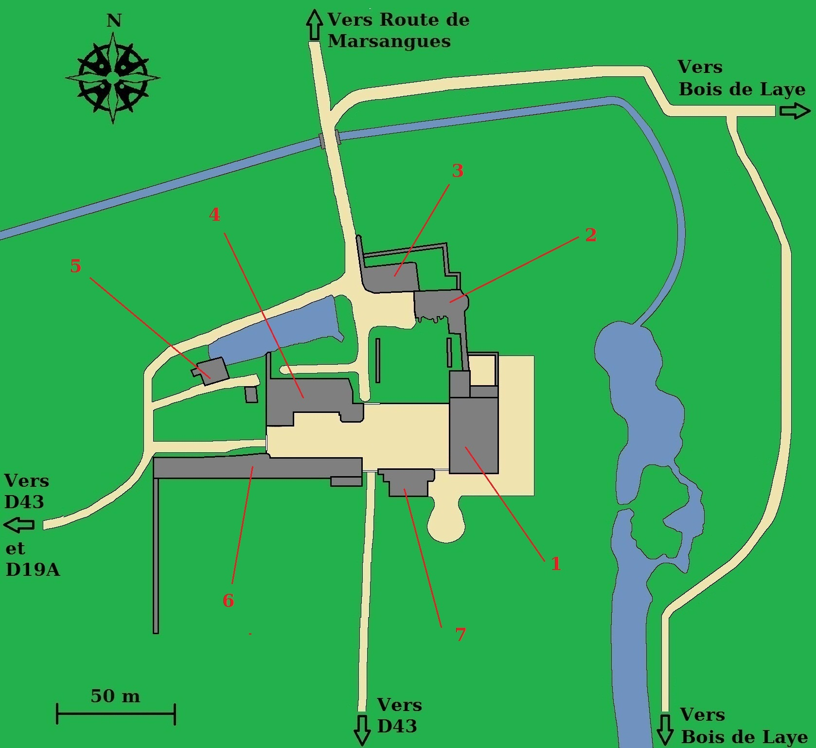 Map Chateau de laye, St georges de Reneins, France. 1: Castle / 2:church / 3, 4, 5, 6, 7: other buildings.